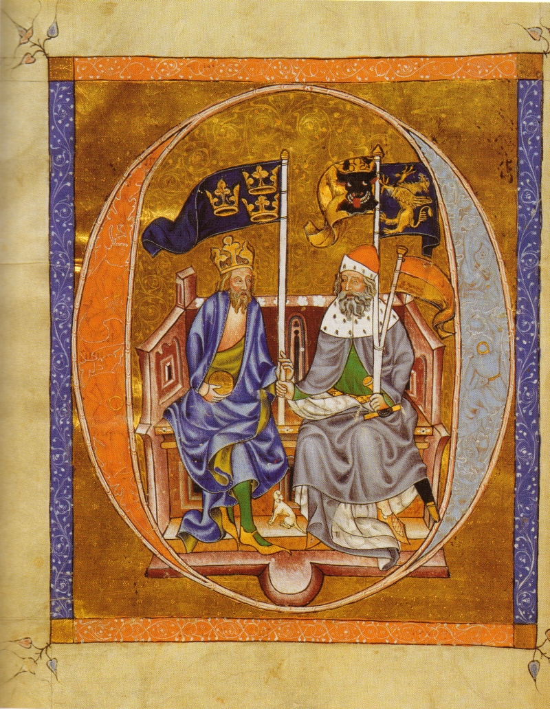 Albert of Mecklenburg (left) and his coat of arms, with his father Albert (right). Miniature from a mecklenburgian cronicle.